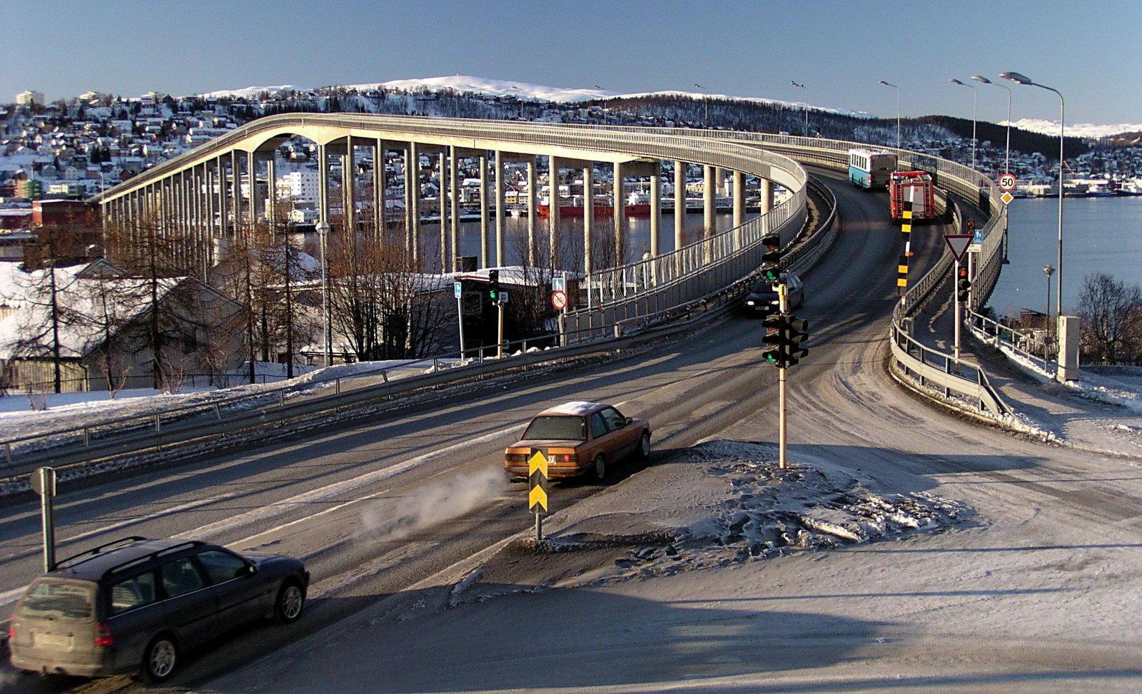 Tromsøbrua (bridge). Original description: Bridge across the Tromso sound